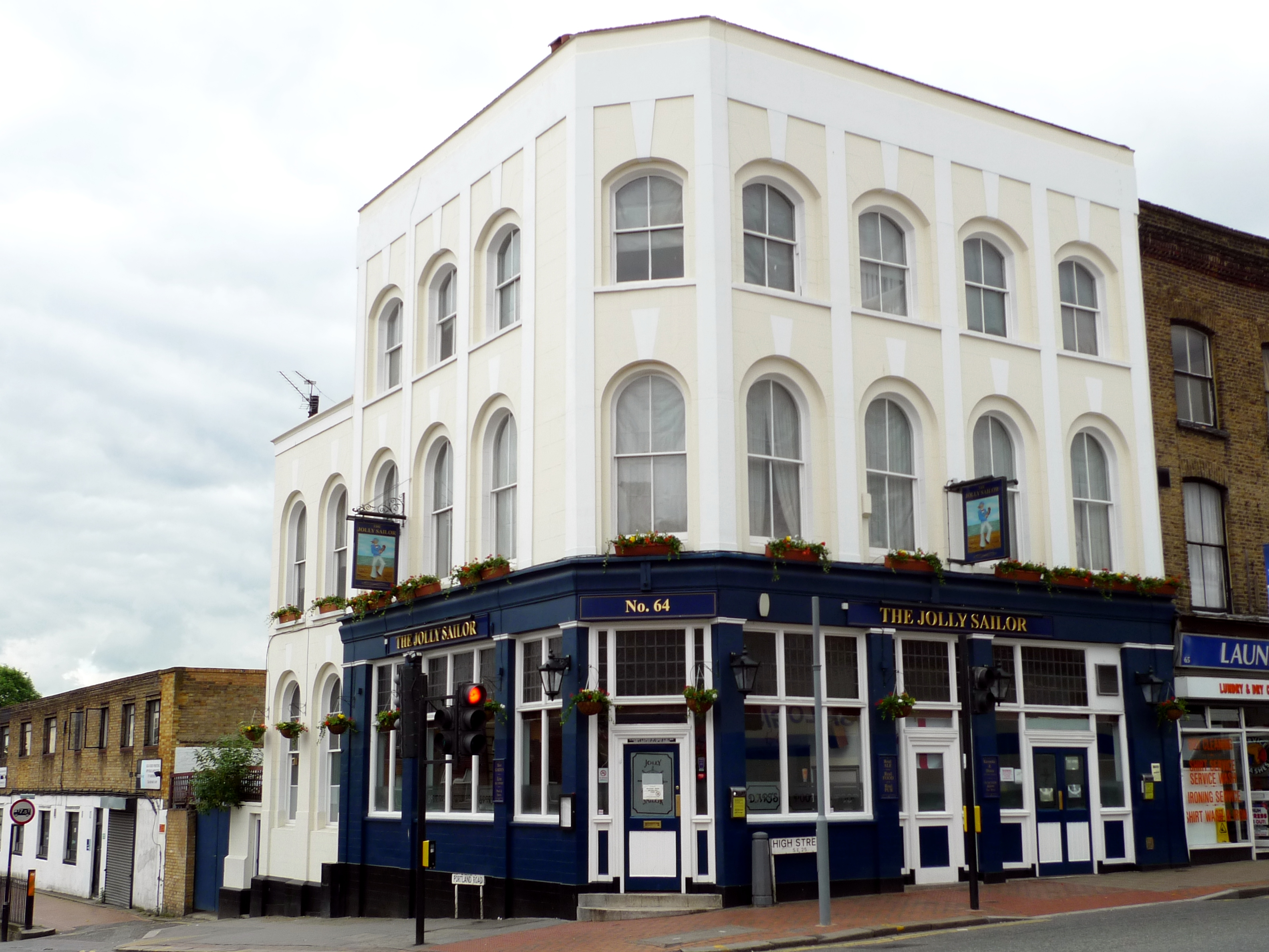 One more pub, directly opposite The Albion. This is one of the oldest pubs in the area, and dates back to when it sat on the banks of Croydon Canal (which closed in the 1830s and was later filled in by the railway line). In fact, Norwood Junction station even took its original name from this pub. (It was only called the Royal Sailor for a brief period in the late-19th century.) Address: 64 High Street. Former Name(s): The Royal Sailor. Links: Pubs Galore Beer in the Evening Pubs History (history)